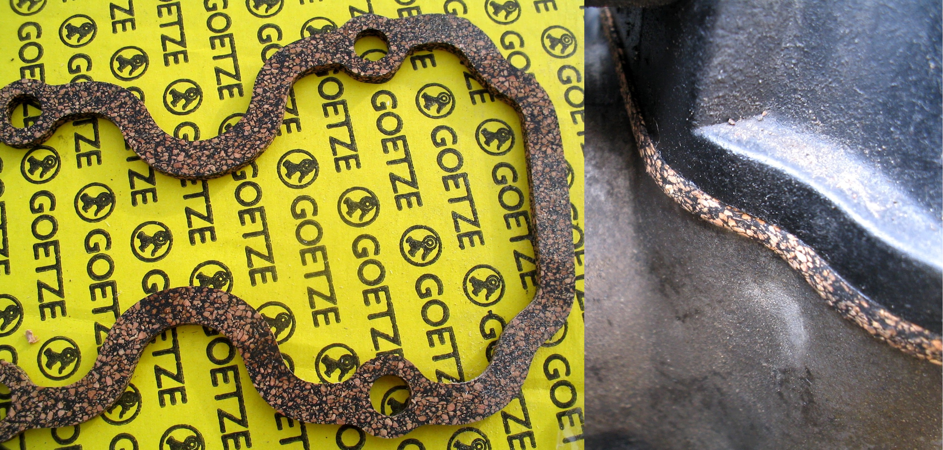 Cork gasket between the cylinder head and cylinder head cover combustion engine, left to right disassembled mounted.